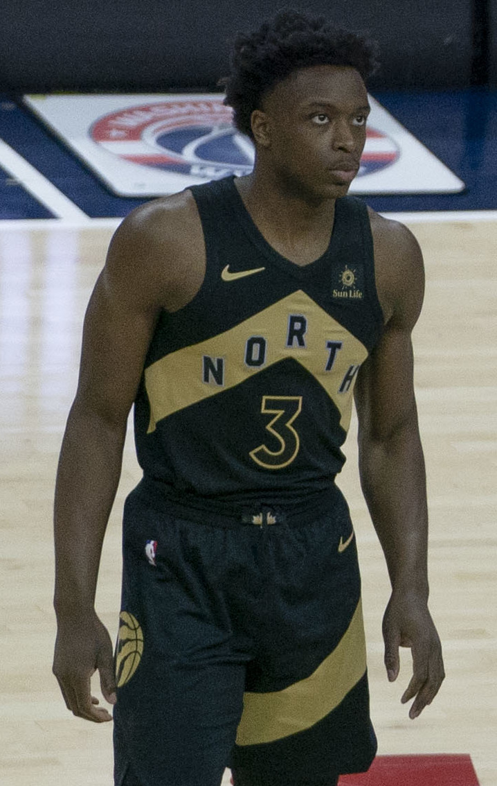 Jonas Valančiūnas of the Toronto Raptors and Marcin Gortat of the Washington Wizards contend for a jump ball during a 2018 game at Capital One Arena in Washington, D.C.